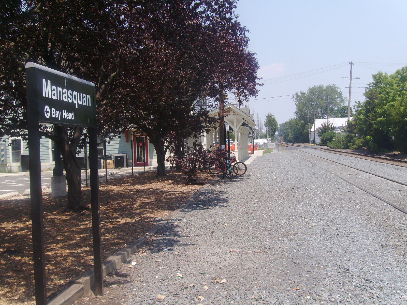 Manasquan Station on New Jersey Transit's North Jersey Coast Line in Manasquan, New Jersey. Downtown Manasquan is at the grade crossing in the distance.